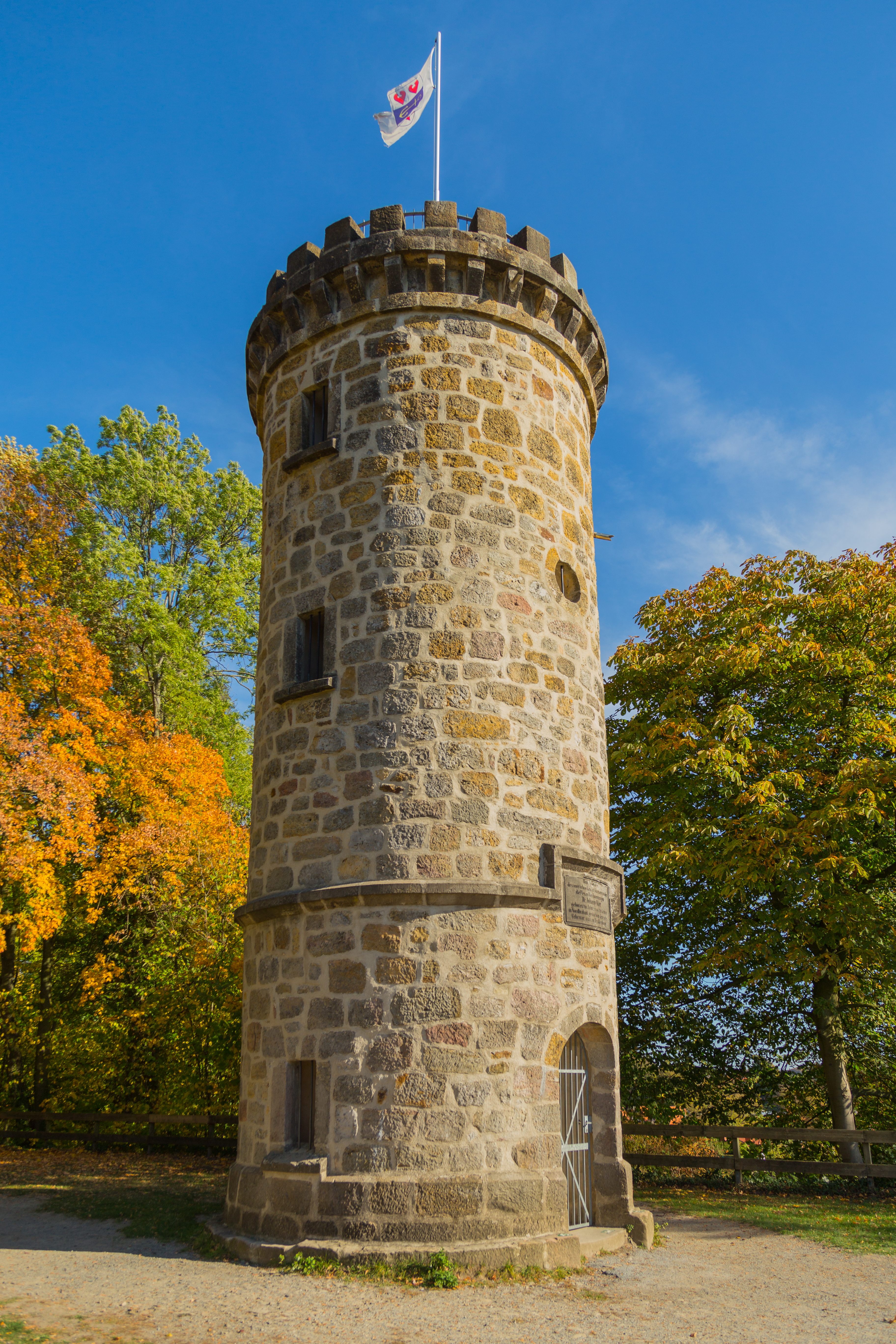 Wier Tower (Wierturm) on top of the ruin of Tecklenburg Castle (Burg Tecklenburg) in Tecklenburg, Kreis Steinfurt, North Rhine-Westphalia, Germany.